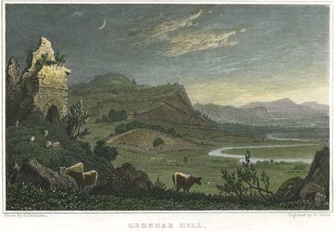 Grongar Hill, Carmarthenshire, engraved by William Wallis after a picture by Henry Gastineau, published in Wales Illustrated (1830). Steel engraved print with hand colouring.